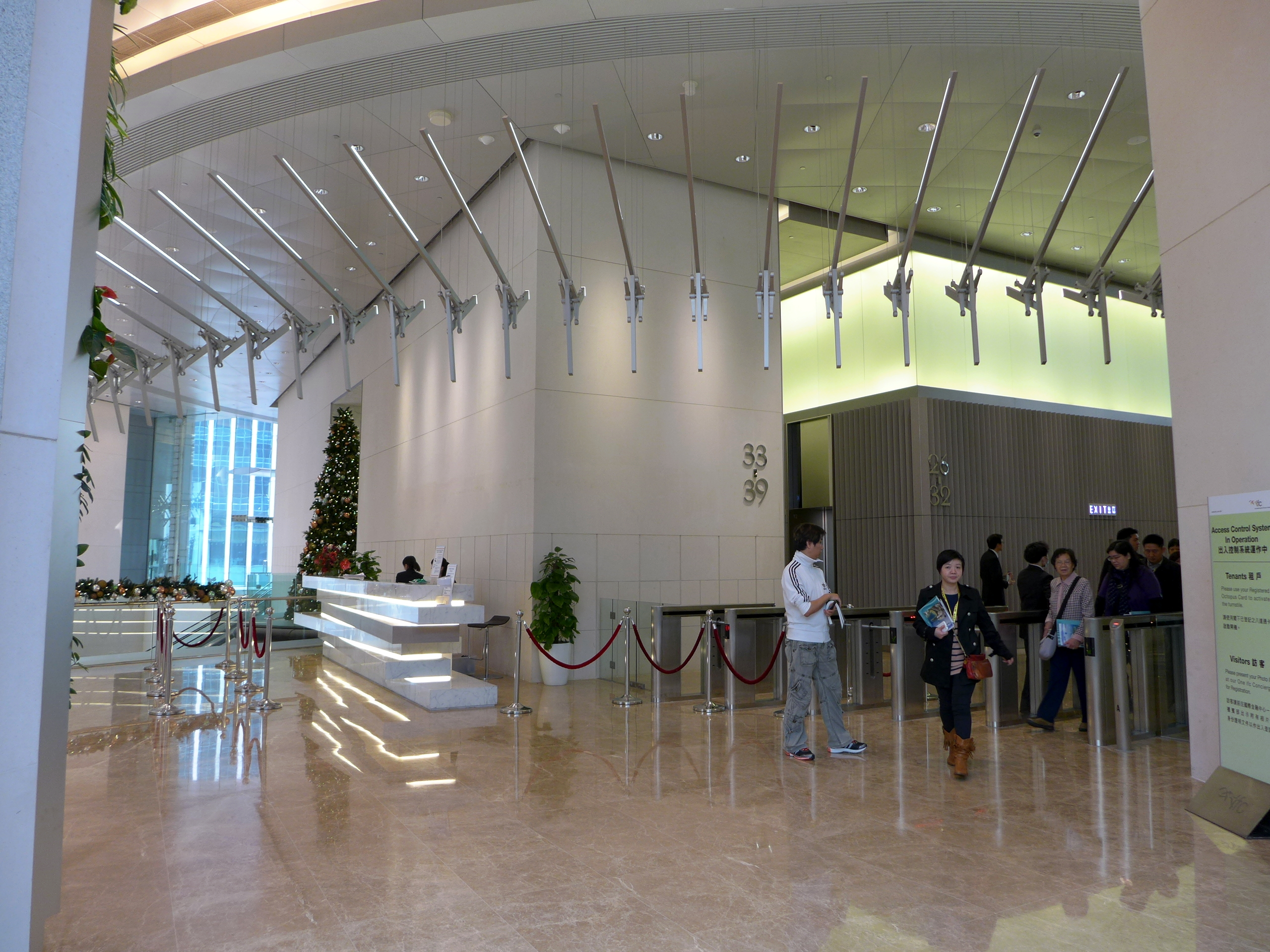 ifc1 office lobby